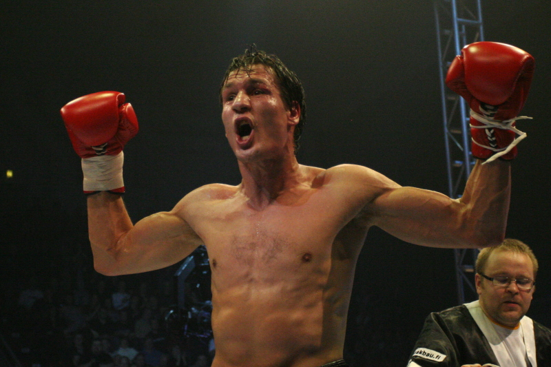 Professional boxer "Idi" Amin Asikainen, Finland, after defeating Luis Ramon "Yori Boy" Campas, Mexico, on TKO in Helsinki, Finland in february 2008. In the background Asikainen's manager-coach Pekka Mäki. Photo by Jonny Smeds.